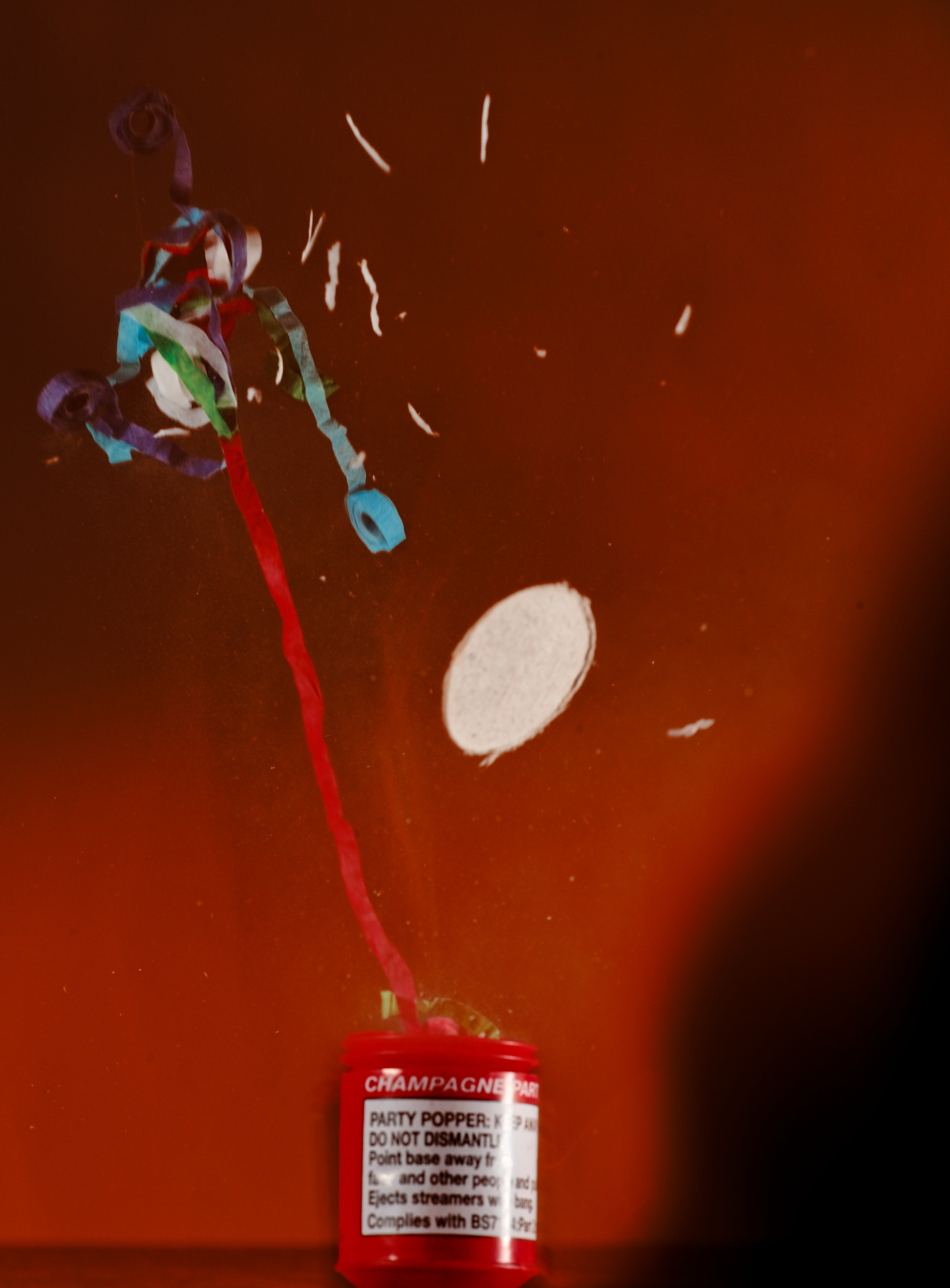 Party Popper